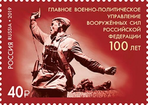 Centenary of the Armed Forces Military-Political Directorate